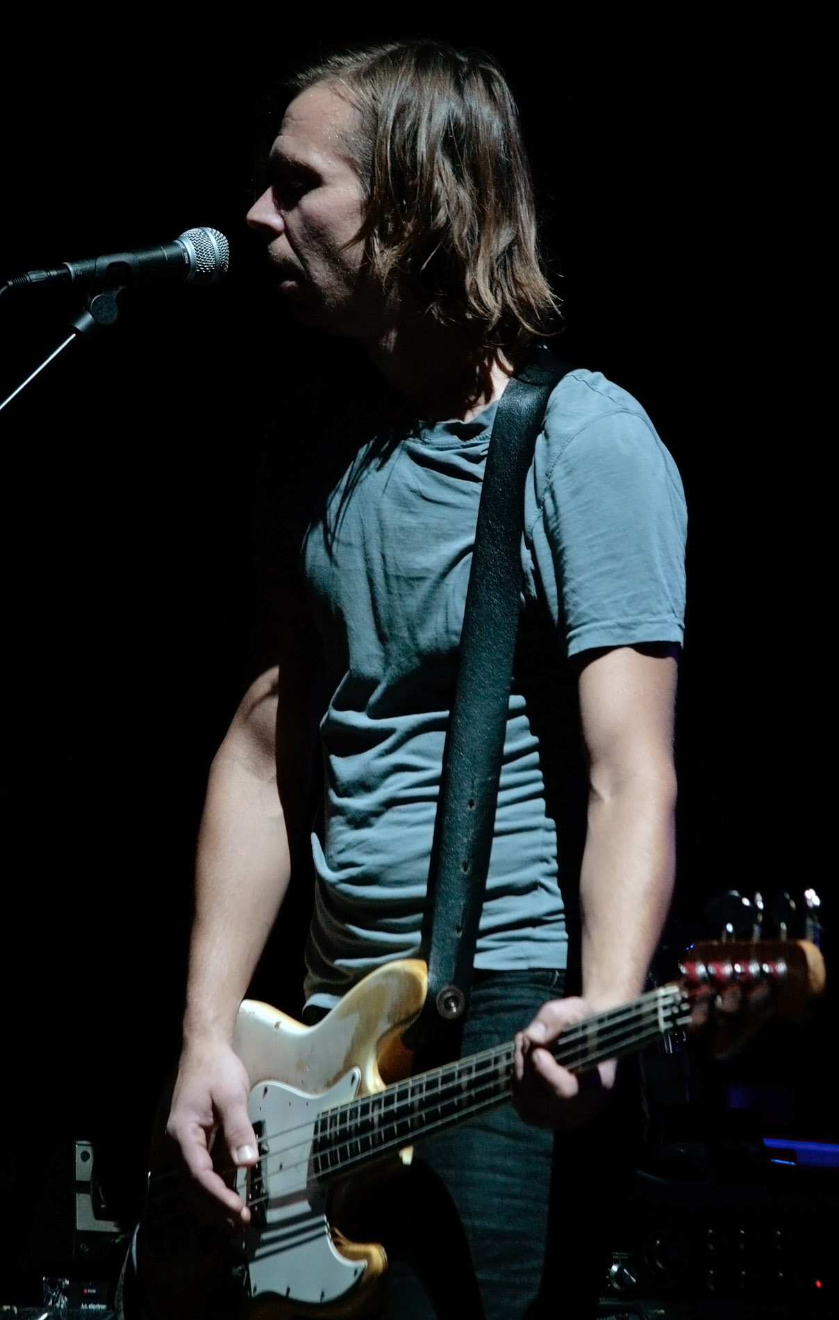 Herwig Zamernik of Austrian band Naked Lunch at the Donauinselfest 2009